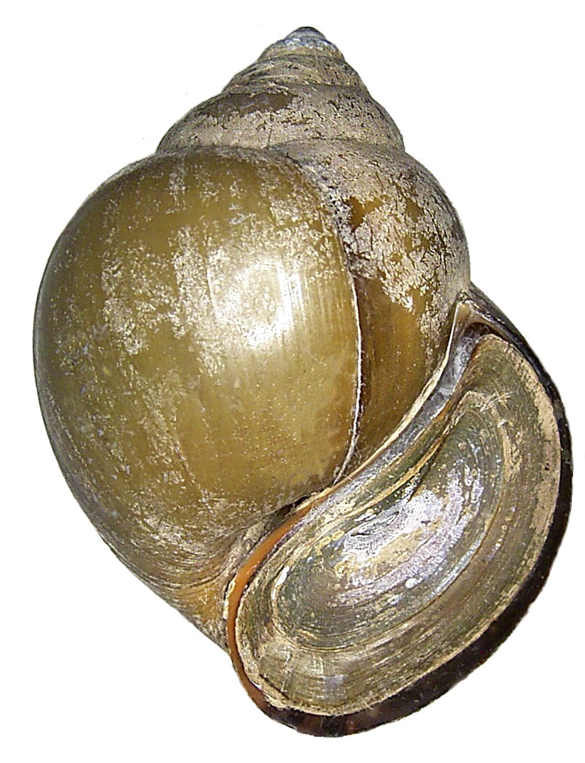 Familie: Ampullariidae Groesse: 65 x 45 mm Fundort: Thailand, Uthai-Thani,Dong-Noi, 1988 Photo: U.Schmidt, 2006